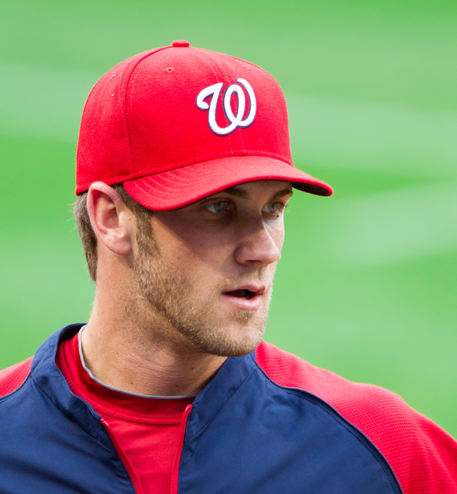 Bryce Harper, June 22 2012